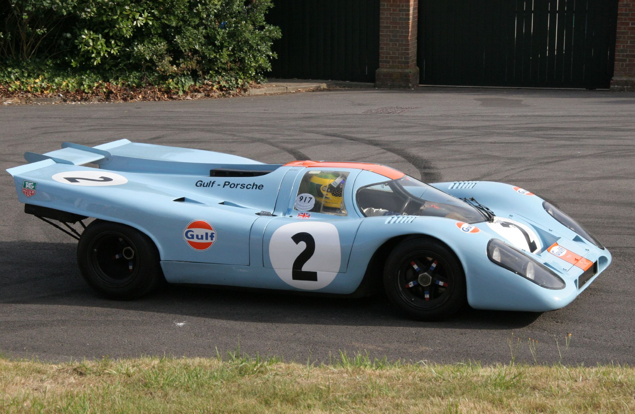 1970 Gulf Porsche 917 on the hillclimb at the 2006 Goodwood Festival of Speed. From the flickr description: "This one, chassis 013, was run by Porsche, JW Automotive and Gulf Oil in 1970 finishing fourth at Daytona in 197. It won at Daytona, Monza, Osterreichring and Montlhéry."